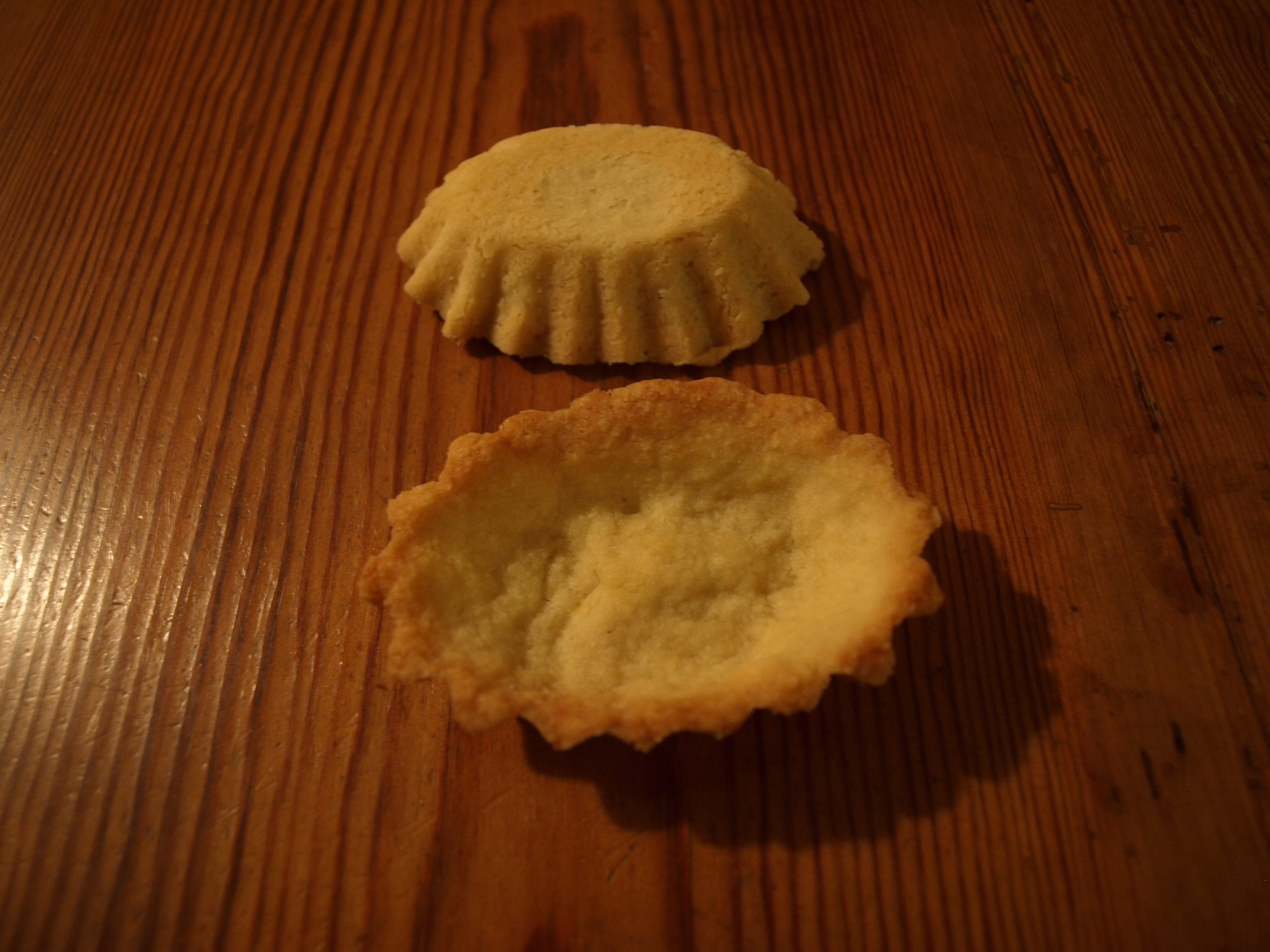 Two "mandelmusslor", a Swedish pastry commonly eaten during Christmas time.